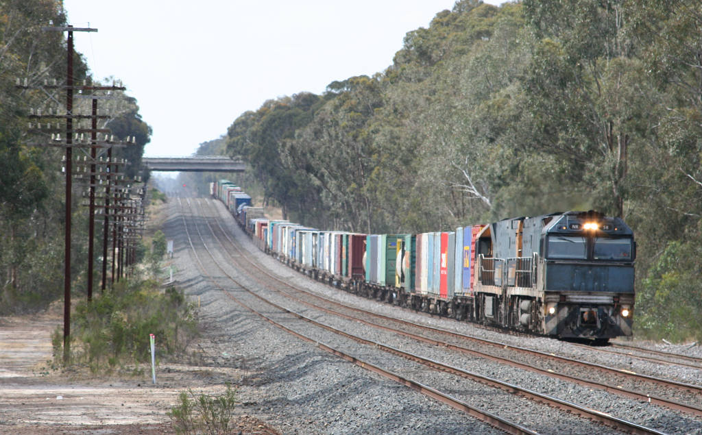 Pacific National freight train lead by NR class locomotives, between Mangalore and Seymour stations, North East railway line, Victoria, Australia